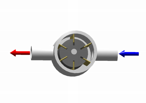 Schematic view of an open rotary vane compressor Author : R. Castelnuovo (myself) 2005 10 19